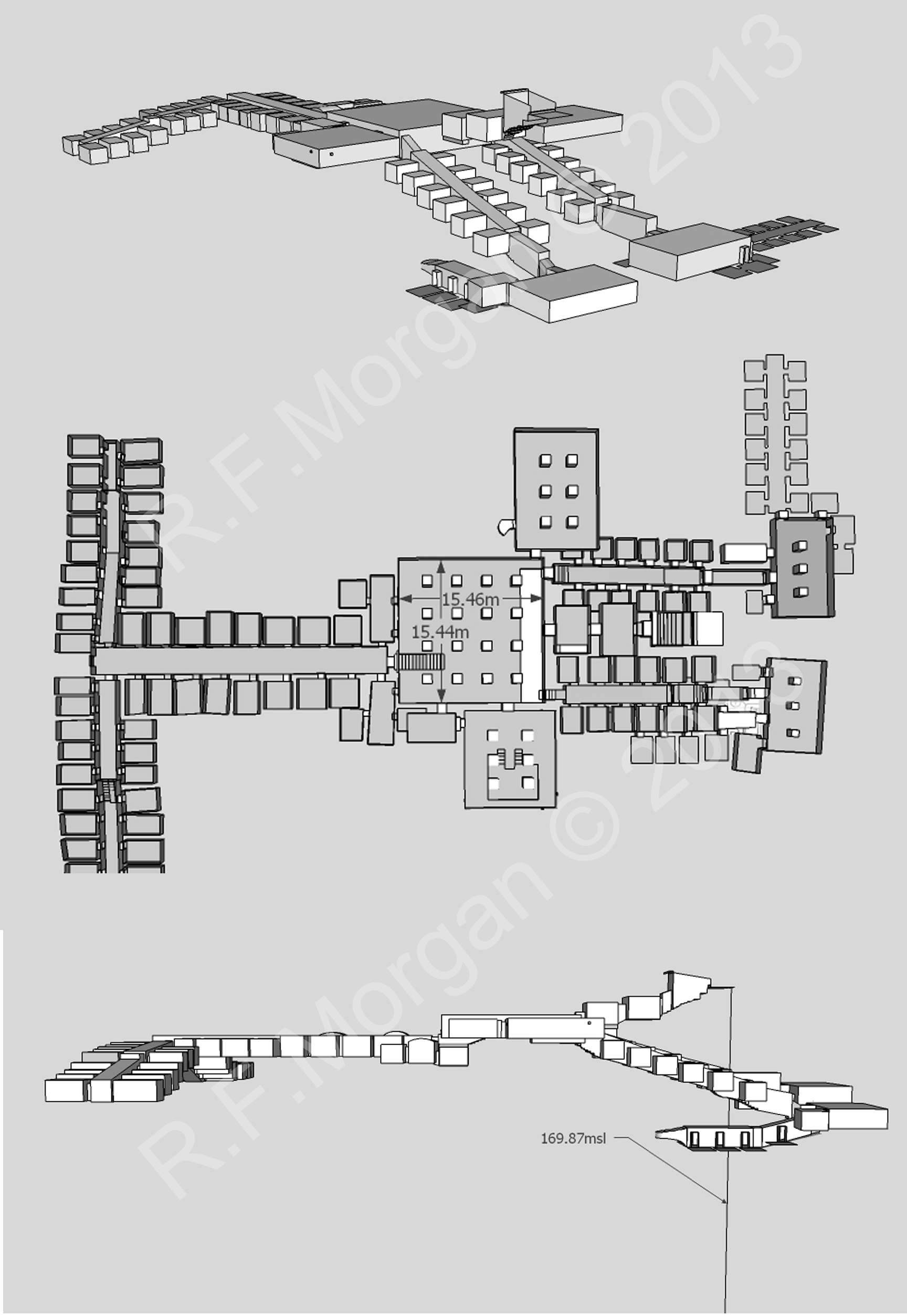 Isometric, plan and elevation images of KV5 taken from a 3d model